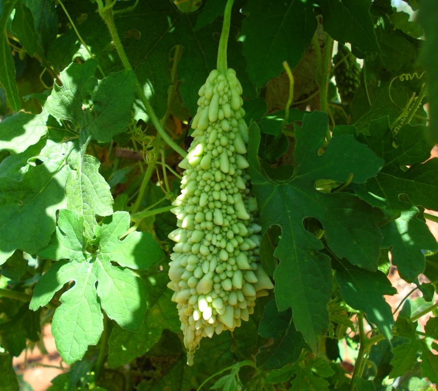 Claimed to be a fruit of Momordica charantia, but may be some other species.--Jorge Stolfi (talk) 22:56, 31 December 2010 (UTC)